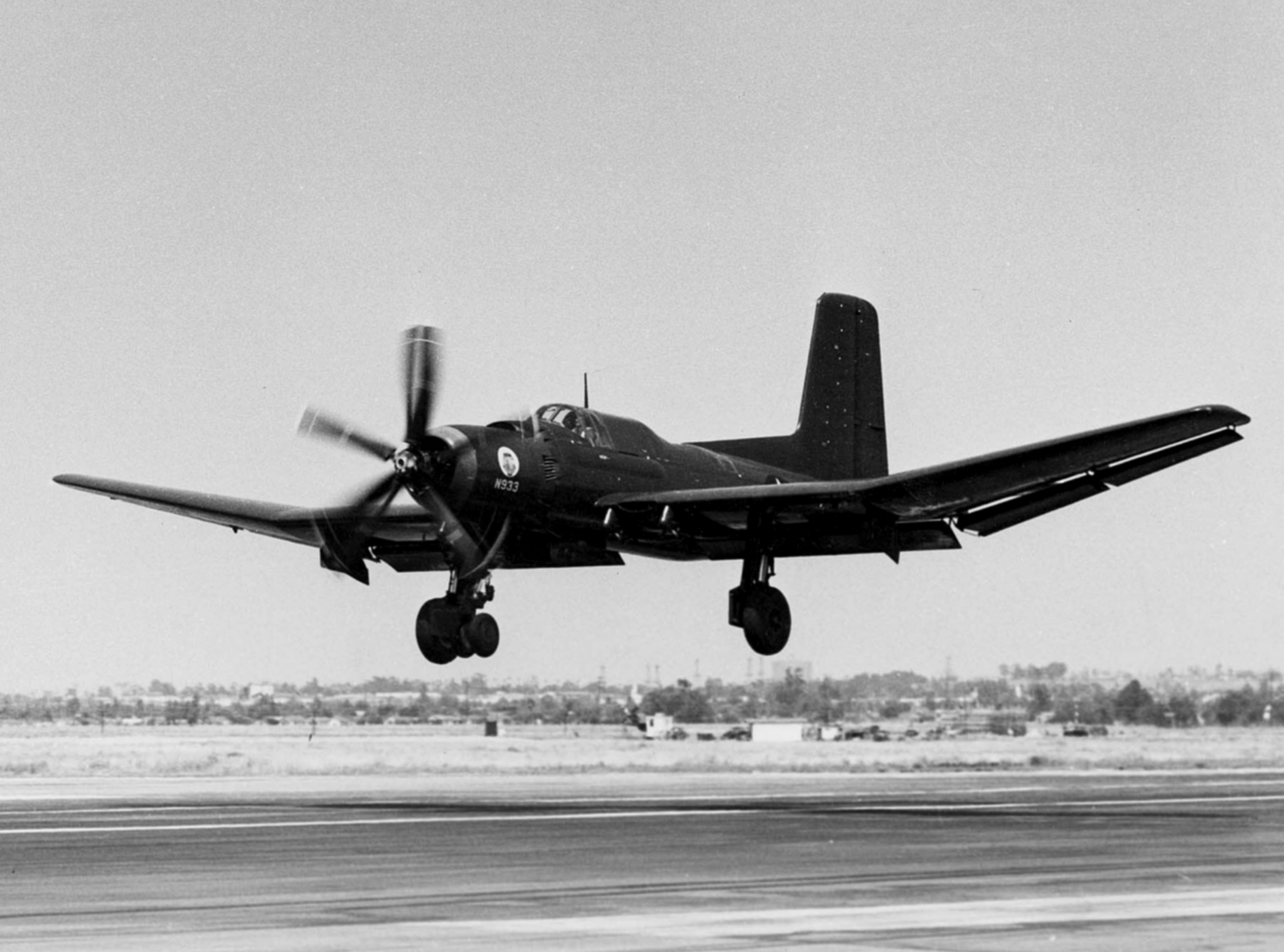 The first U.S. Navy Douglas XTB2D-1 Skypirate prototype (BuNo 36933) just prior to landing at unidentified airfield.